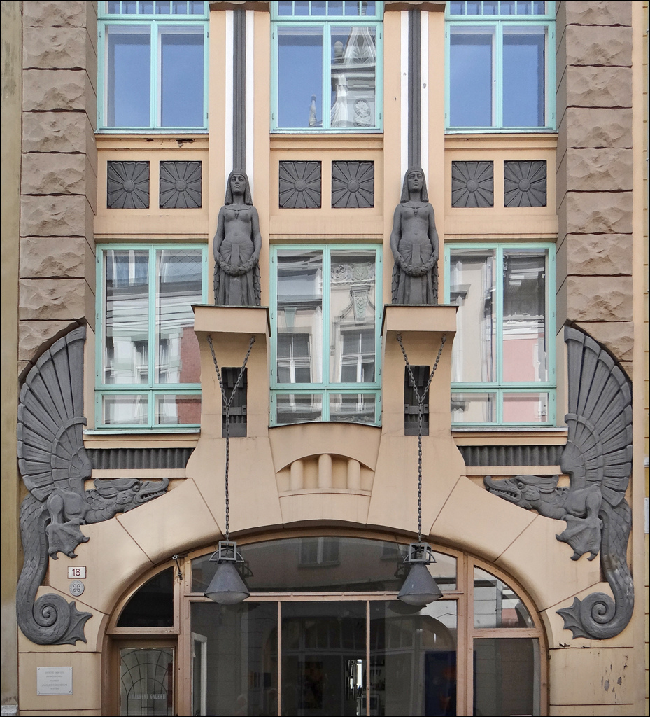 Art Deco building designed by Jacques Rosenbaum at Pikk 18, Tallinn